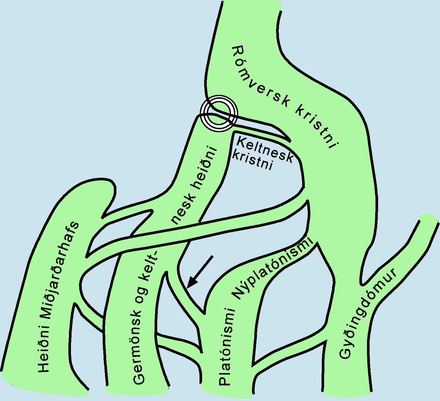 A diagram of the roots of the Icelandic culture, according to Einar Pálson´s theory.